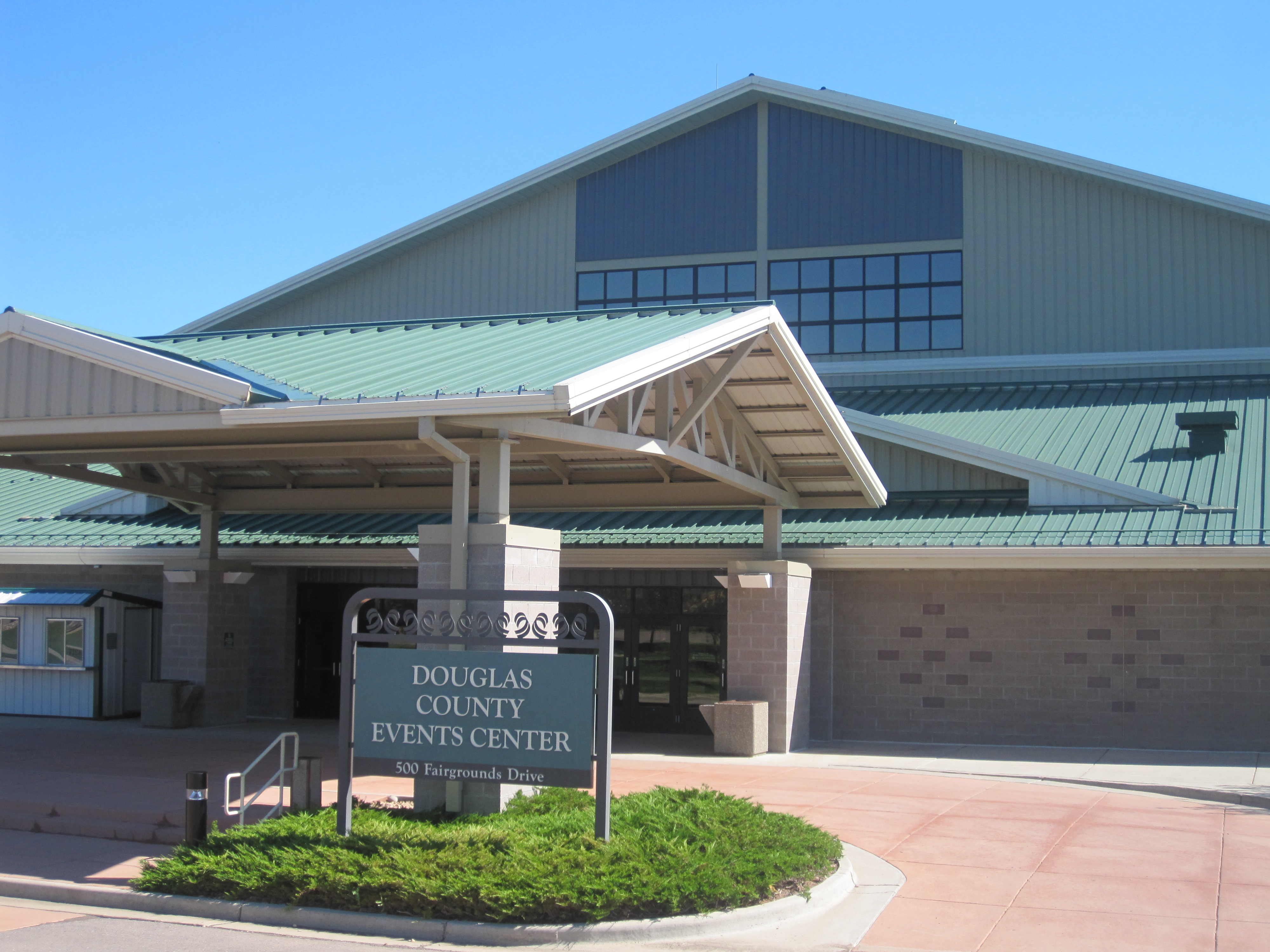 I took photo with Canon camera in Castle Rock, CO.